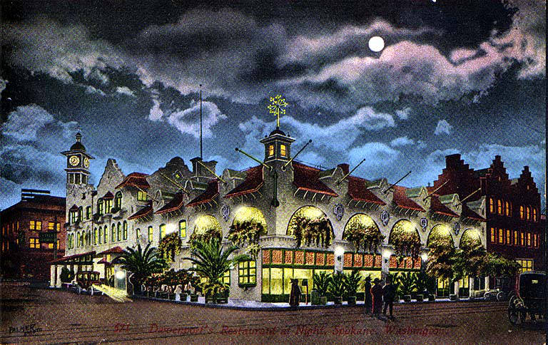 Caption on image: 571 Davenport's Restaurant at night, Spokane, Washington Subjects (LCSH): Davenport's Hotel (Spokane, Wash.); Restaurants--Washington (State)--Spokane